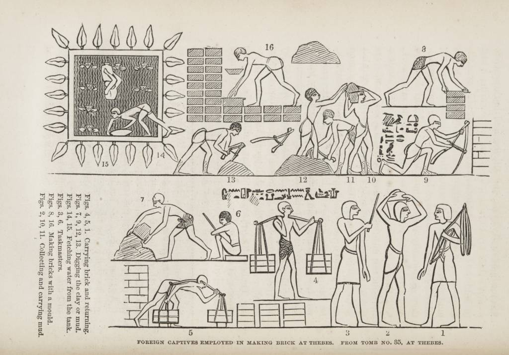 A diagram showing the use of foreign captives making bricks.